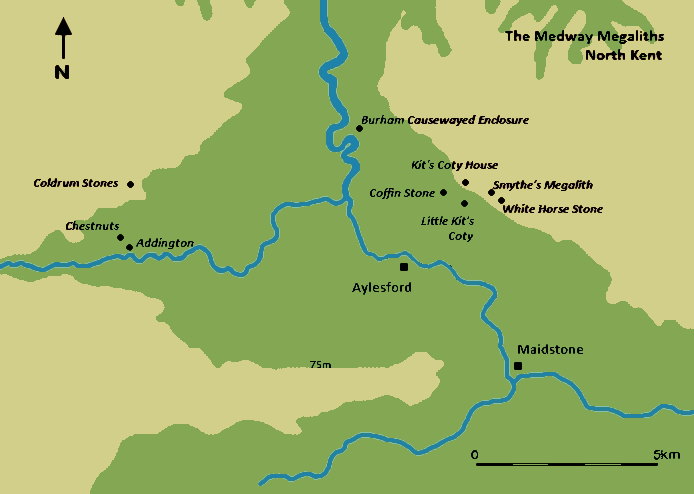 A plan of the Medway Megaliths, a series of Early Neolithic chambered tombs clustered around the River Medway in Kent, England. Created by uploader based upon example in page 2 of Wysocki, Michael; Griffiths, Seren; Hedges, Robert; Bayliss, Alex; Higham, Tom; Fernandez-Jalvo, Yolanda; Whittle, Alasdair (2013). "Dates, Diet and Dismemberment: Evidence from the Coldrum Megalithic Monument, Kent". Proceedings of the Prehistoric Society. Prehistoric Society. 79: 1–30.